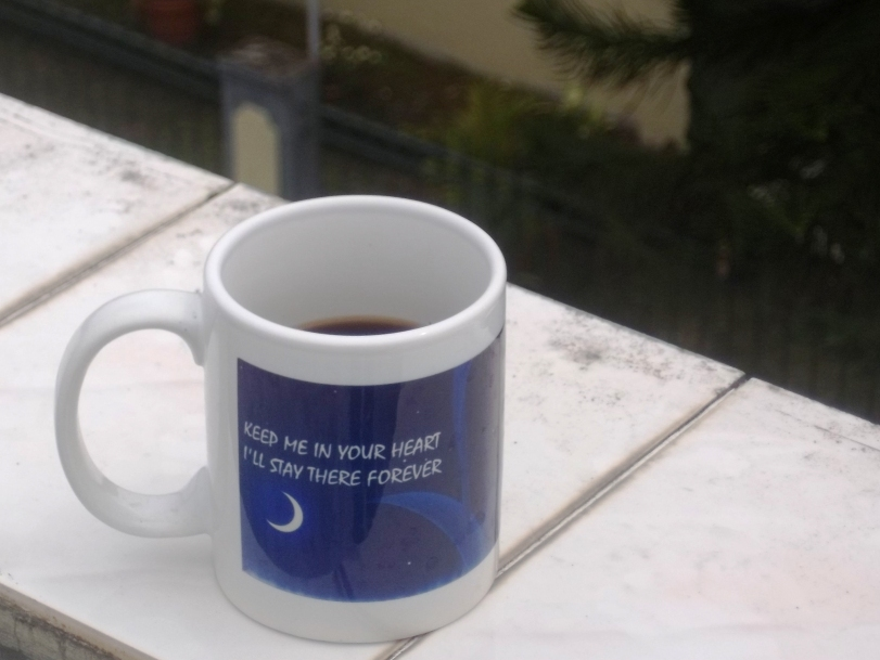 Glazed painted mug